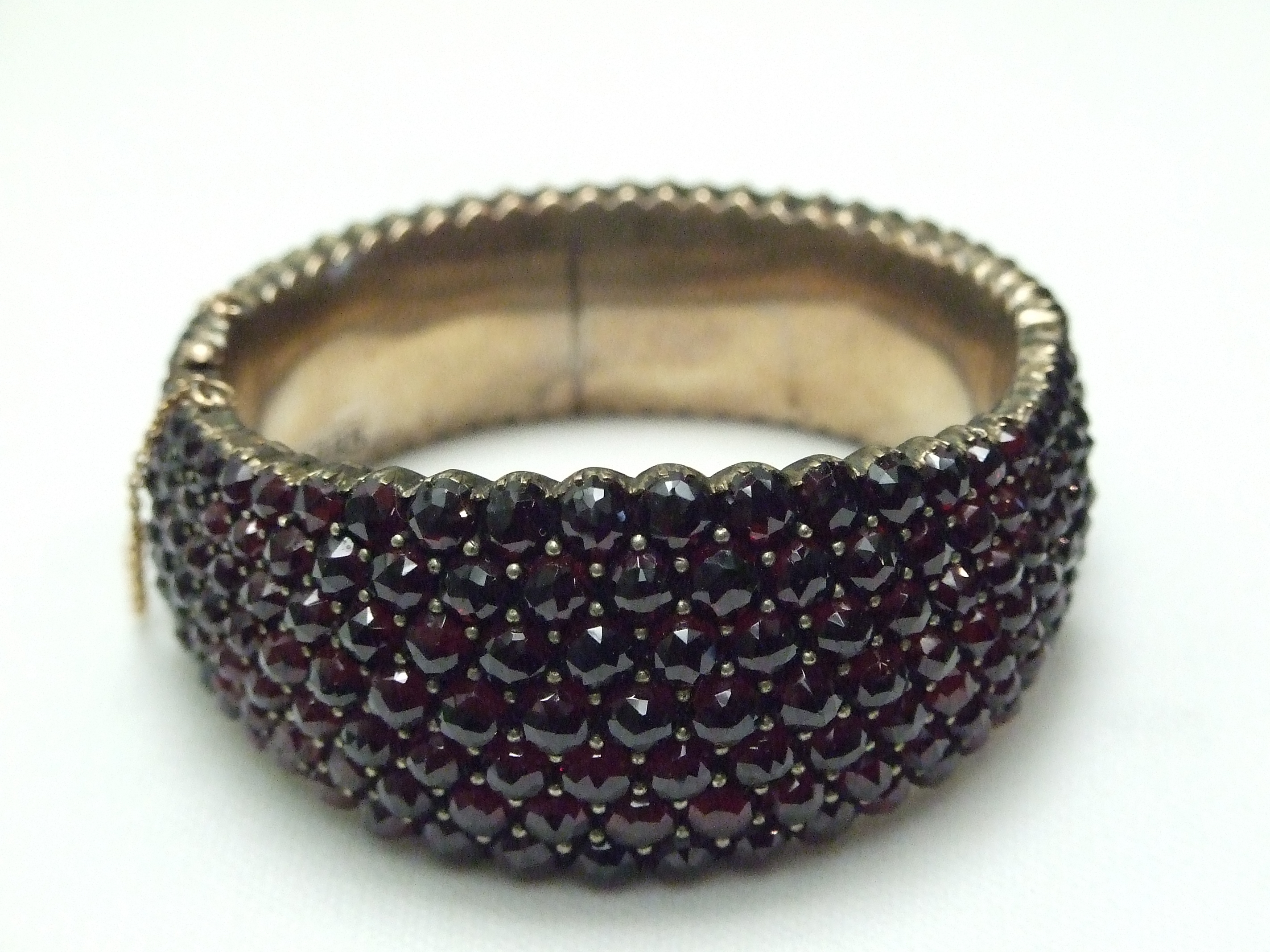 The Republic exhibition, National Museum in Prague